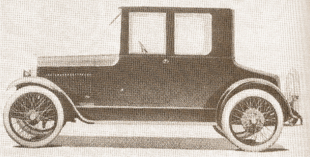 1920 Scripps-Booth B-42 Coupe